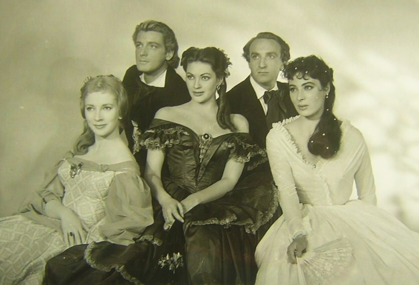 L. to R. : Valentina Cortese, Carlos Thompson, Yvonne De Carlo, Alan Badel, and Rita Gam in the film Magic Fire (1955) - publicity still (original image cropped : see source)